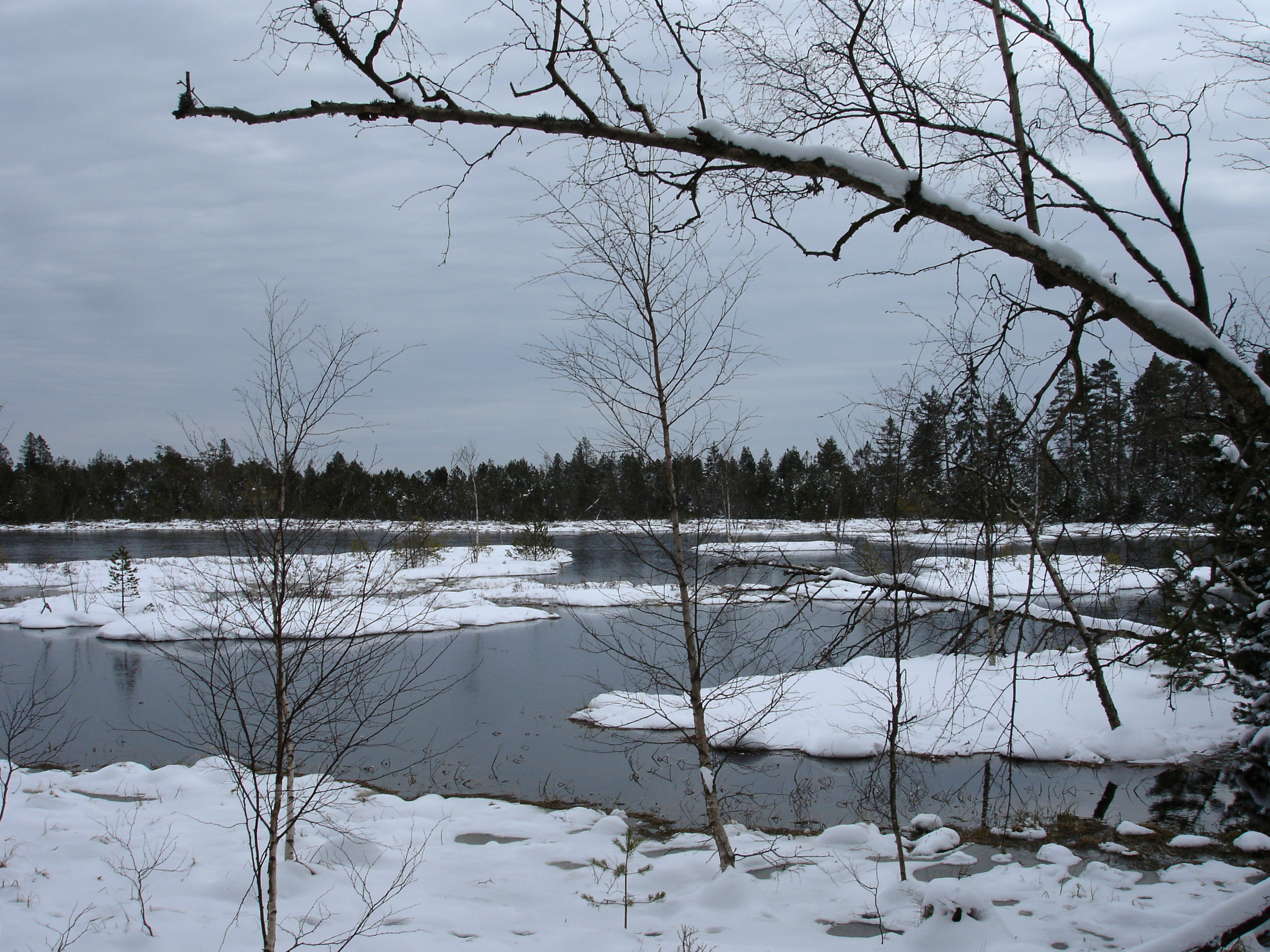 The Wildsee near Bad Wildbad in northern Black Forest in Germany.